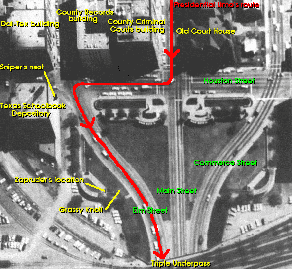 Photo of Dealey Plaza (annotated), from Warren Commission report.